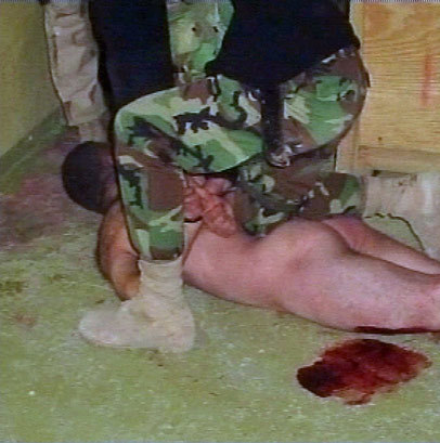 Abu Ghraib 22. 10:52 p.m., Dec. 12, 203. Detainee after dog bite. SOLDIER(S): Possibly HARMAN, SMITH, Mr. NAKHLA, GRANER and FREDERICK. All caption information is taken directly from CID materials. U.S. Army / Criminal Investigation Command (CID). Seized by the U.S. Government.